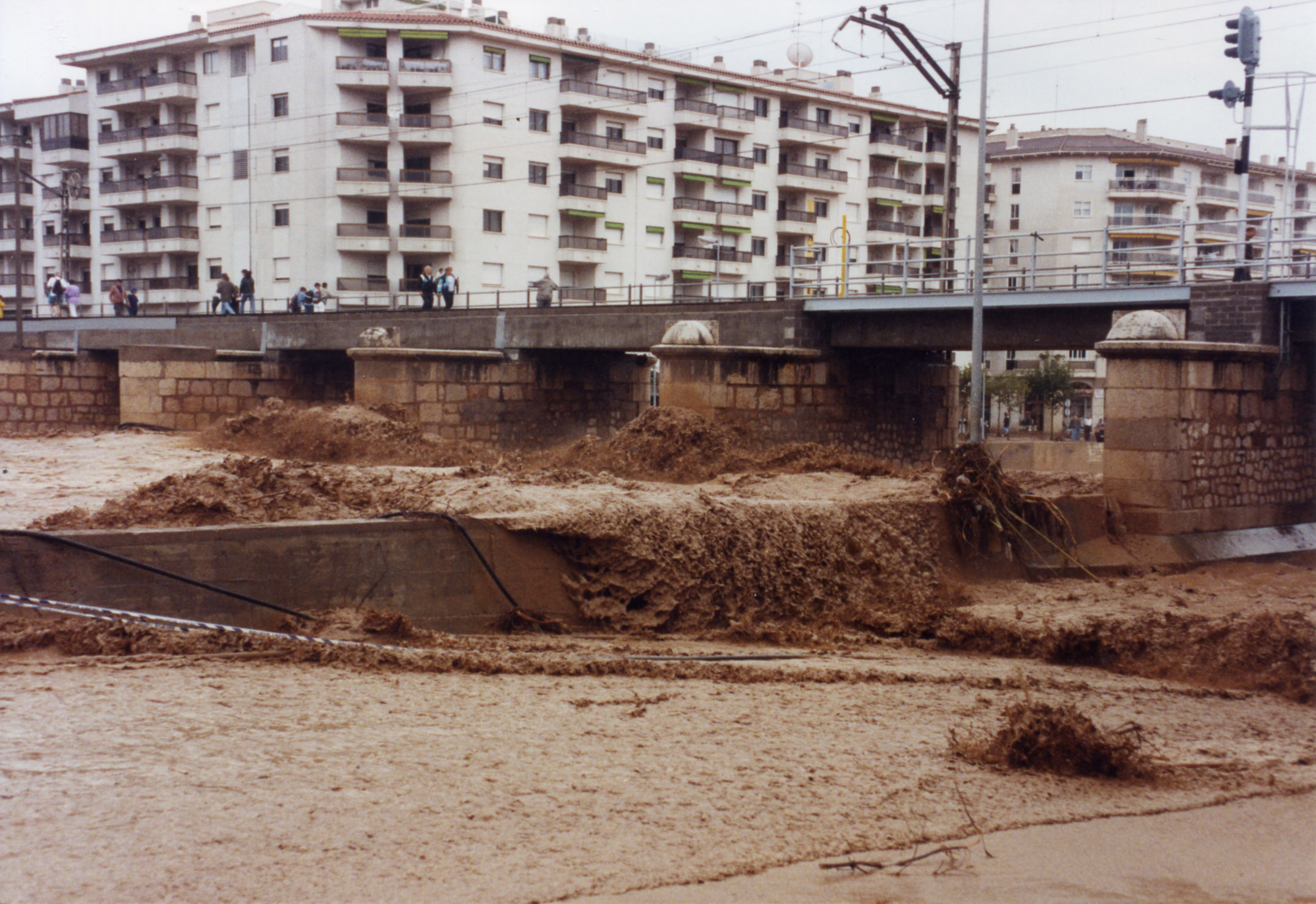 Riera d'Alforja overflowed at the town of Cambrils by Water October 1994